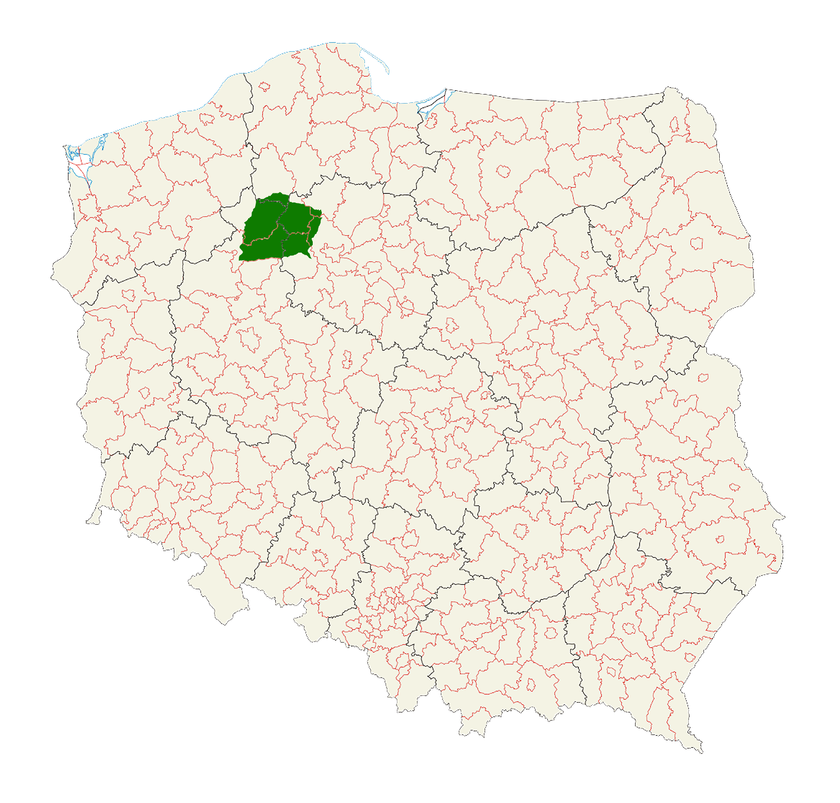 Location of Krajna region in Poland.